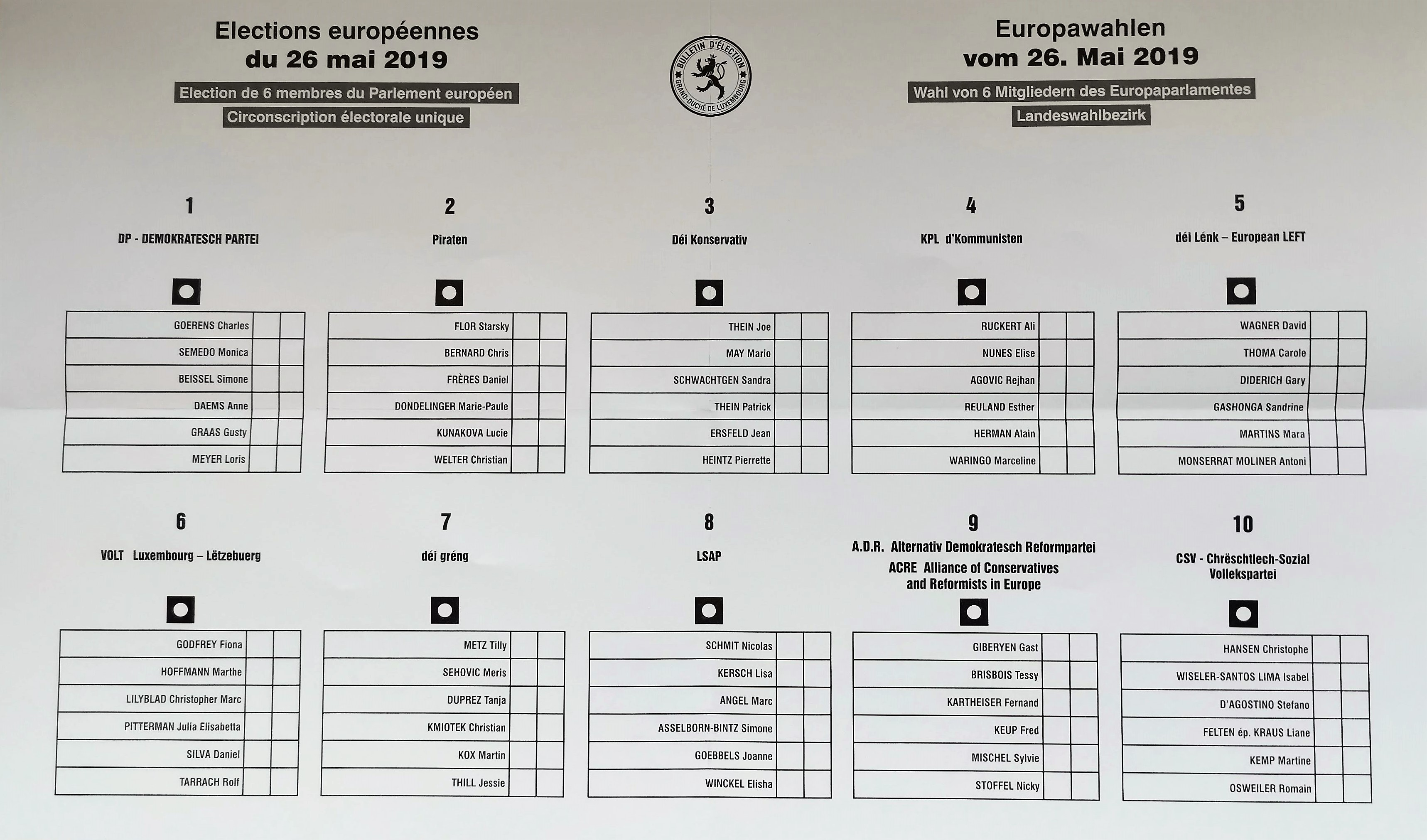 Ballot paper for the European Parliament election, Luxembourg 2019.